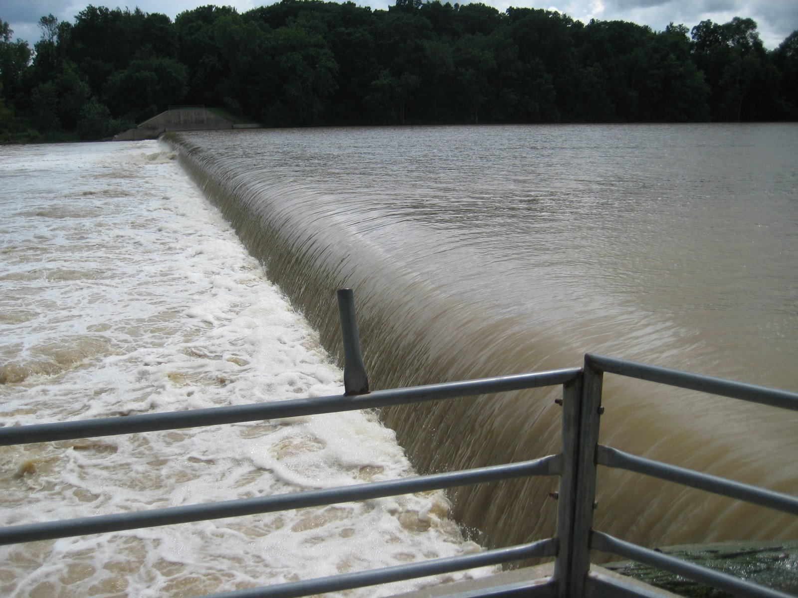 Dam at Independence Dsm State Park